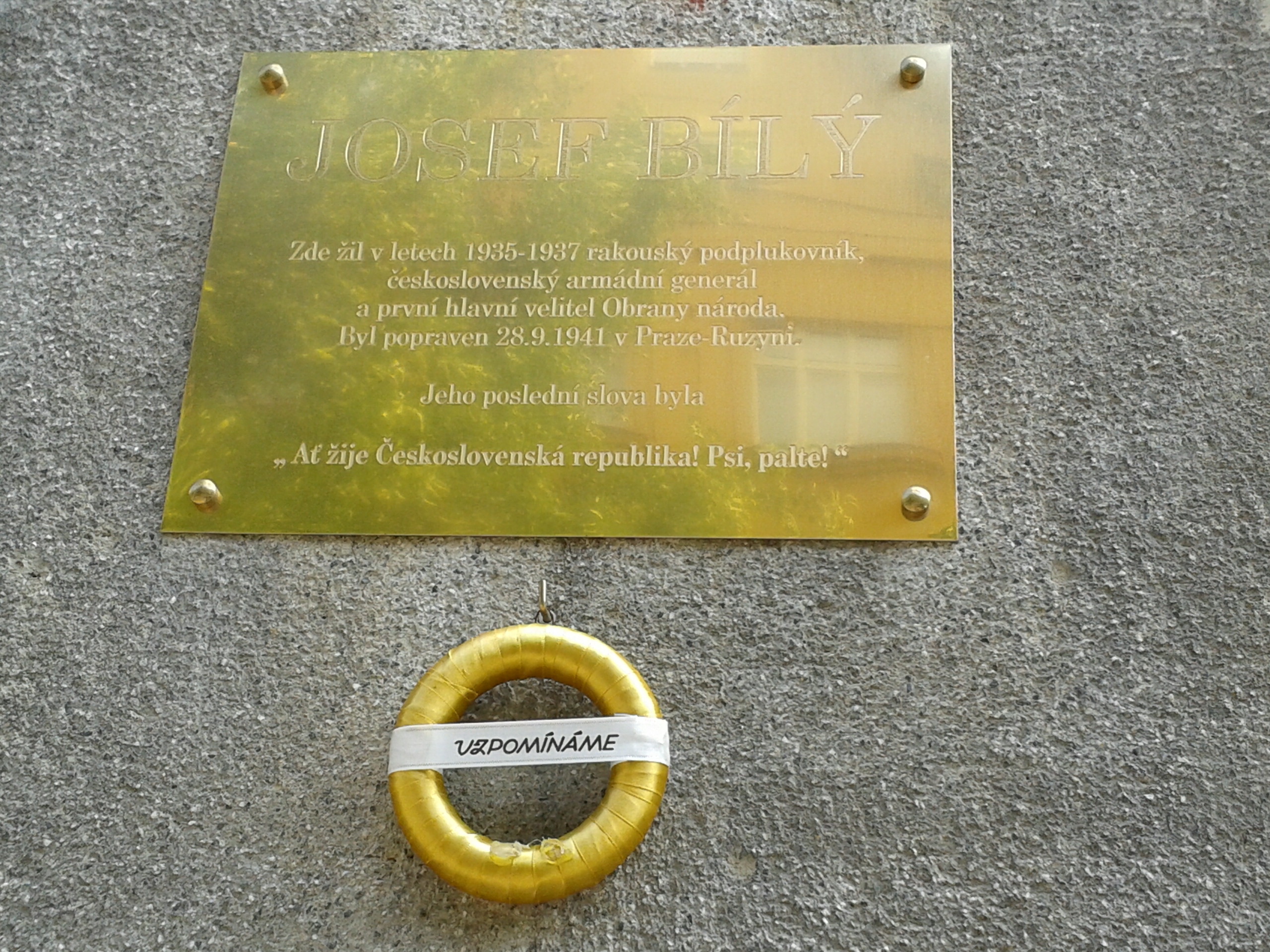 The publicly accessible memorial plaque (in the Czech language) is located on the outer wall at the entrance to the house in Verdunská Street (Verdunská 801/17, 160 00 Prague 6 - Bubeneč), where General Josef Bílý (* June 30, 1872 Ochoz near Zbonín - † 28 September 1941 Prague) was living until 1937 with his wife Hana Bílá.